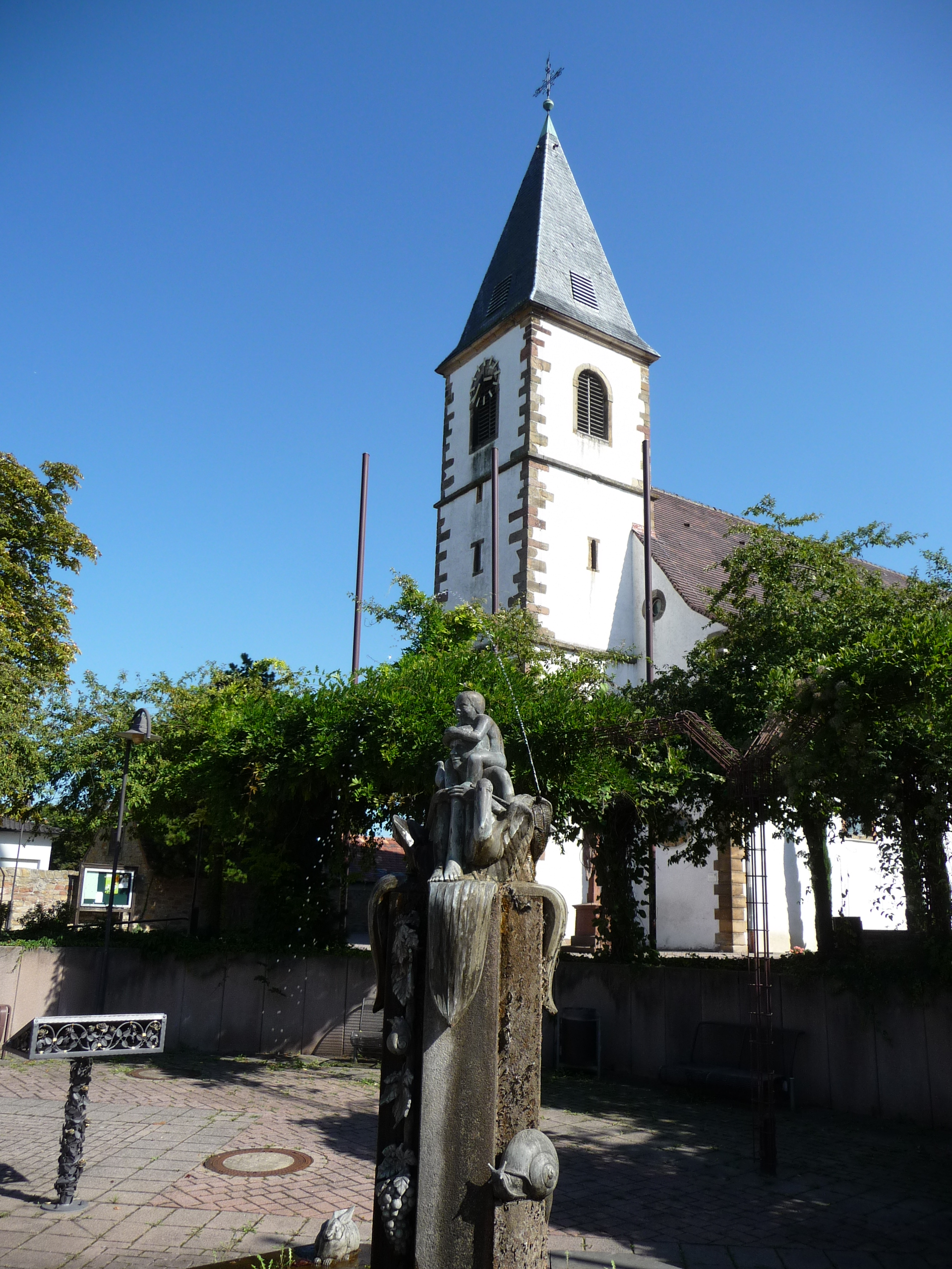 Marienplatz (Rödersheim-Gronau)